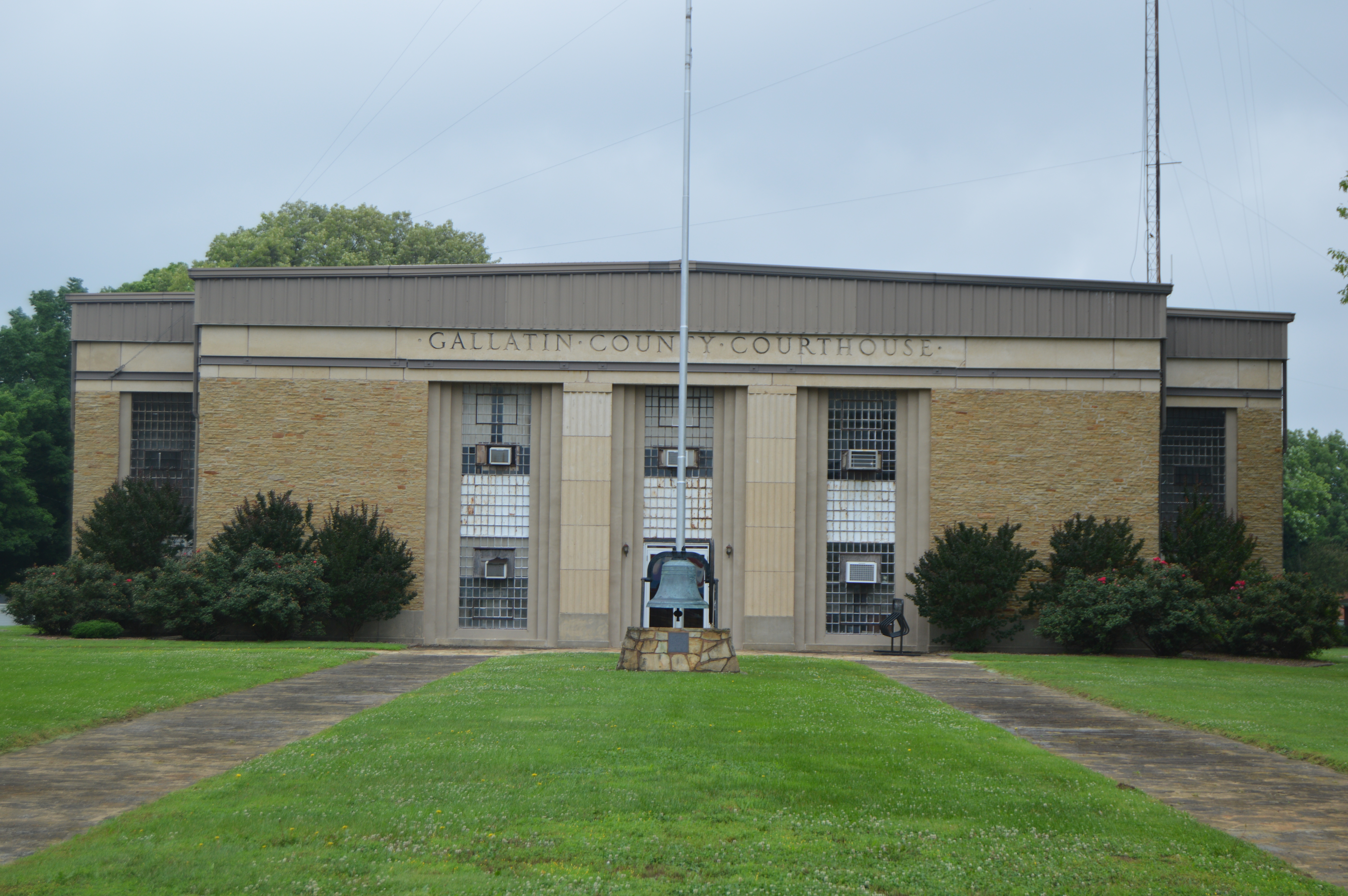 Front of the Gallatin County Courthouse, located at 484 Lincoln Boulevard in Shawneetown, Illinois, United States. It was built in 1939.